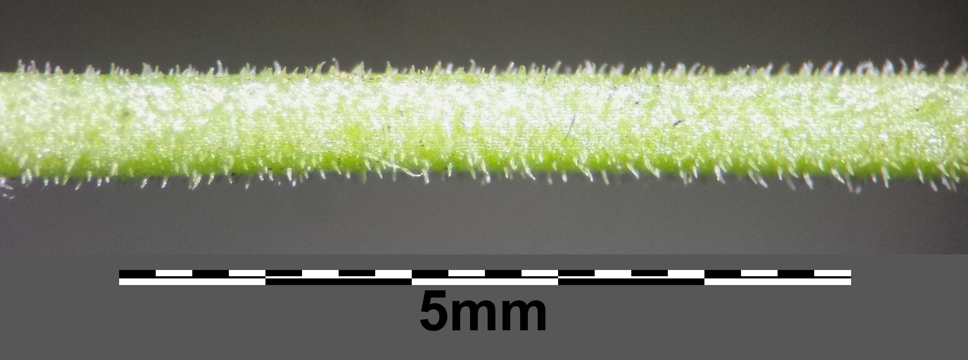 Stipe with short hairs Taxonym: Dianthus deltoides ss Fischer et al. EfÖLS 2008 ISBN 978-3-85474-187-9 Location: near Komau, district Freistadt, Upper Austria - ca. 850 m a.s.l. Habitat: slope